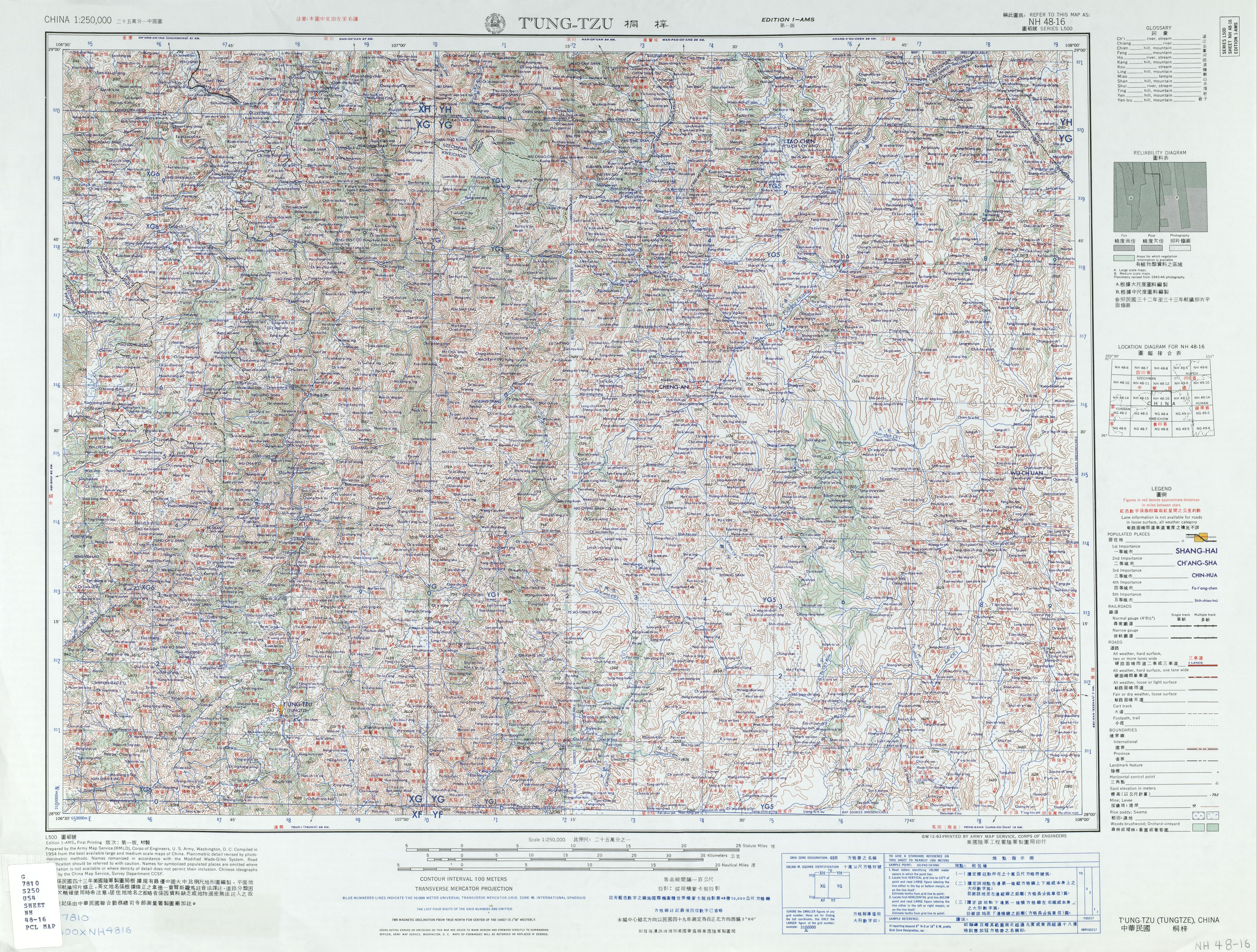 China AMS Topographic Maps